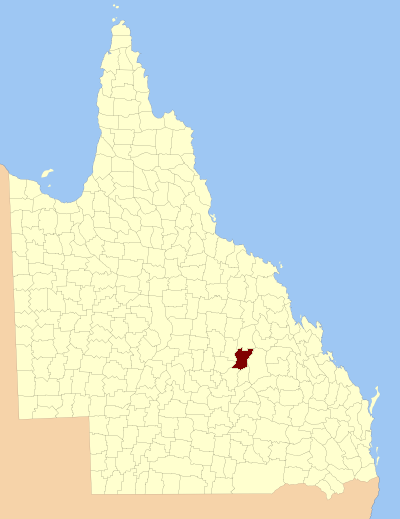 Location of the county in Queensland, one of the Cadastral divisions of Queensland